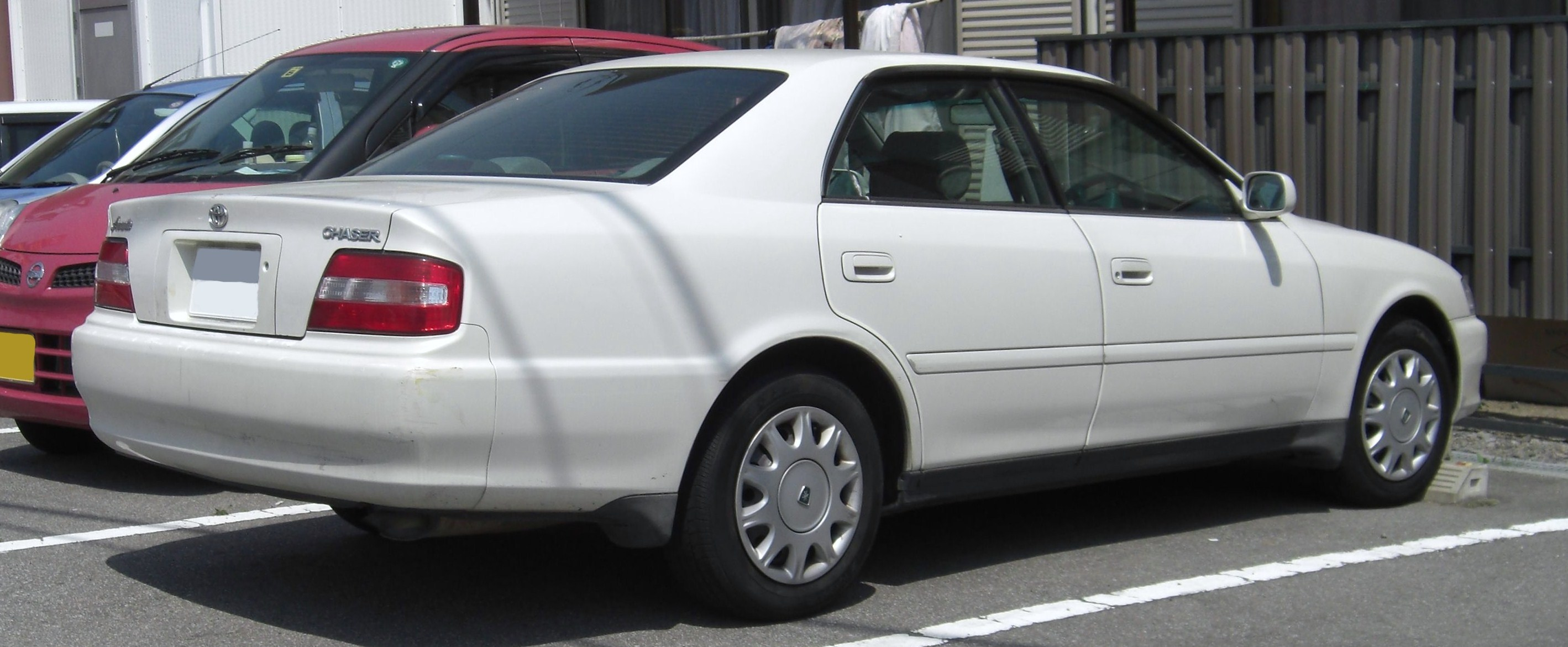 Toyota Chaser